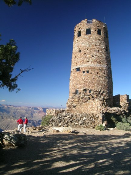 Photo of the Yavapai Observation Station in Grand Canyon National Park South Rim. Photo by Ross Statham, October 2004 NOTE: This image actually depicts the Desert View Watchtower, as was pointed out on File talk:Yavapai Observation Station.jpg at 04:10, 13 January 2007 UTC by Nebular110 (talk • contribs) .